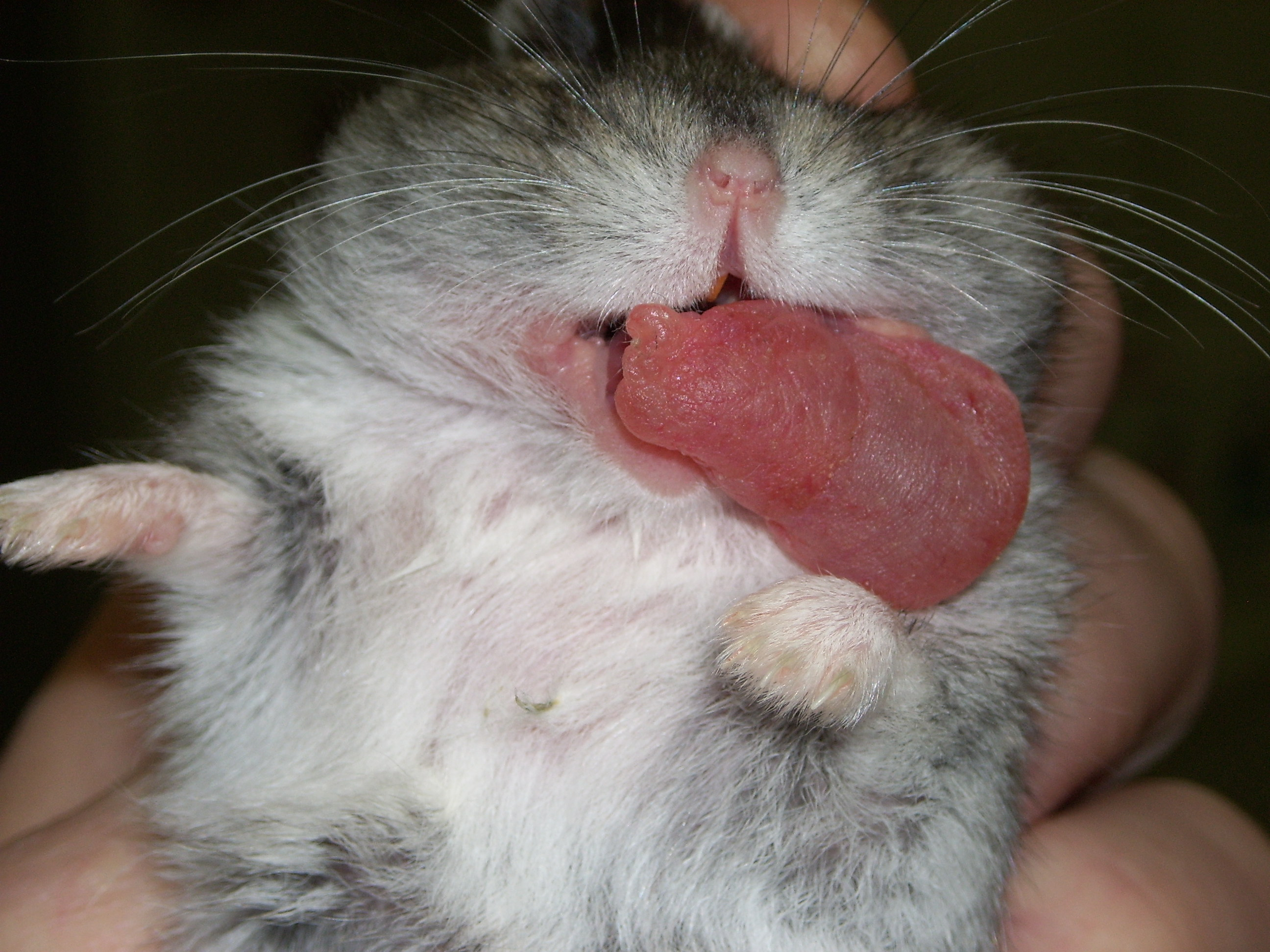 Prolapse of the cheek pouch in a hamster